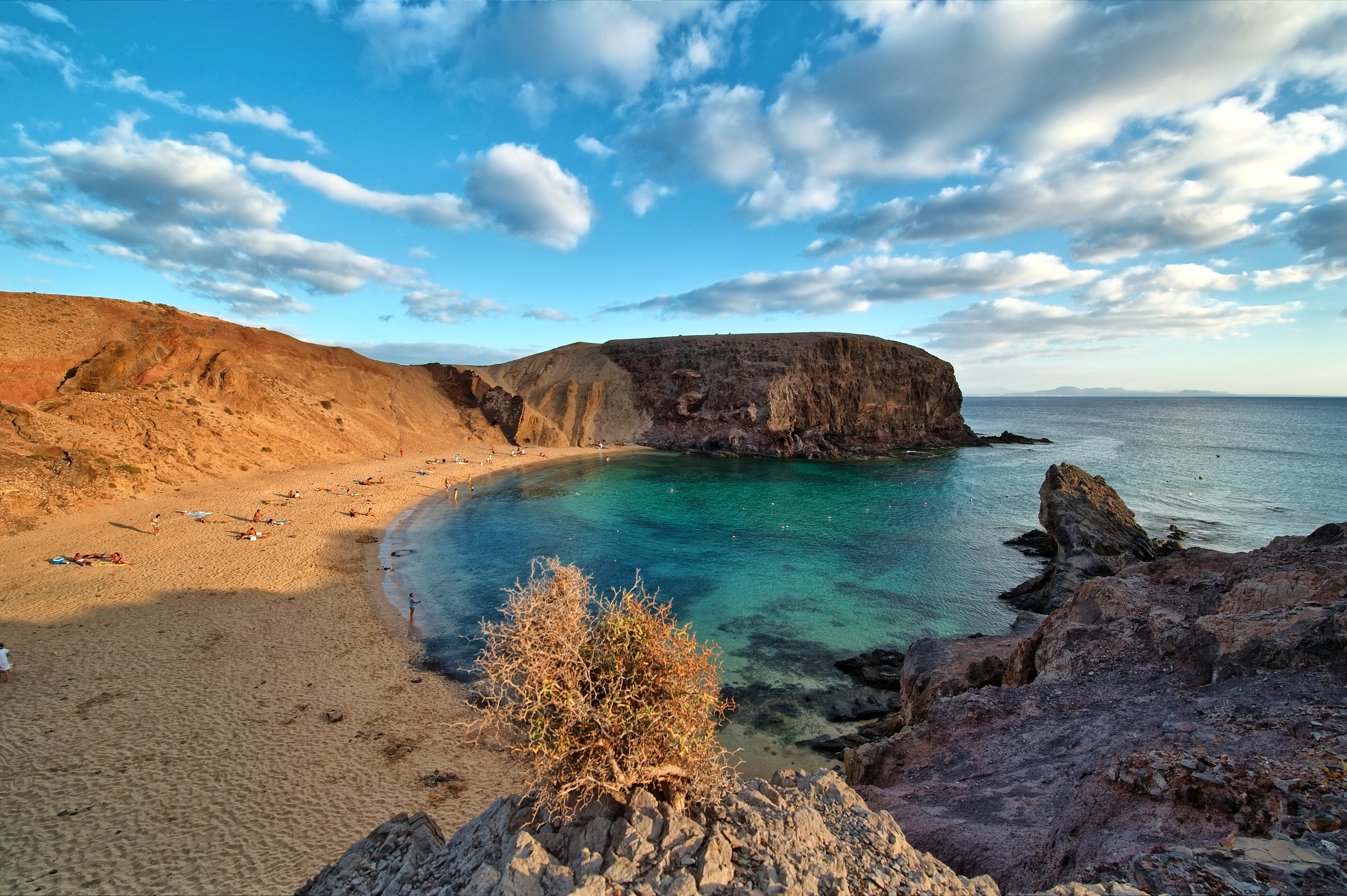 Papagayo Beach, Lanzarote, Canary Islands, Spain.